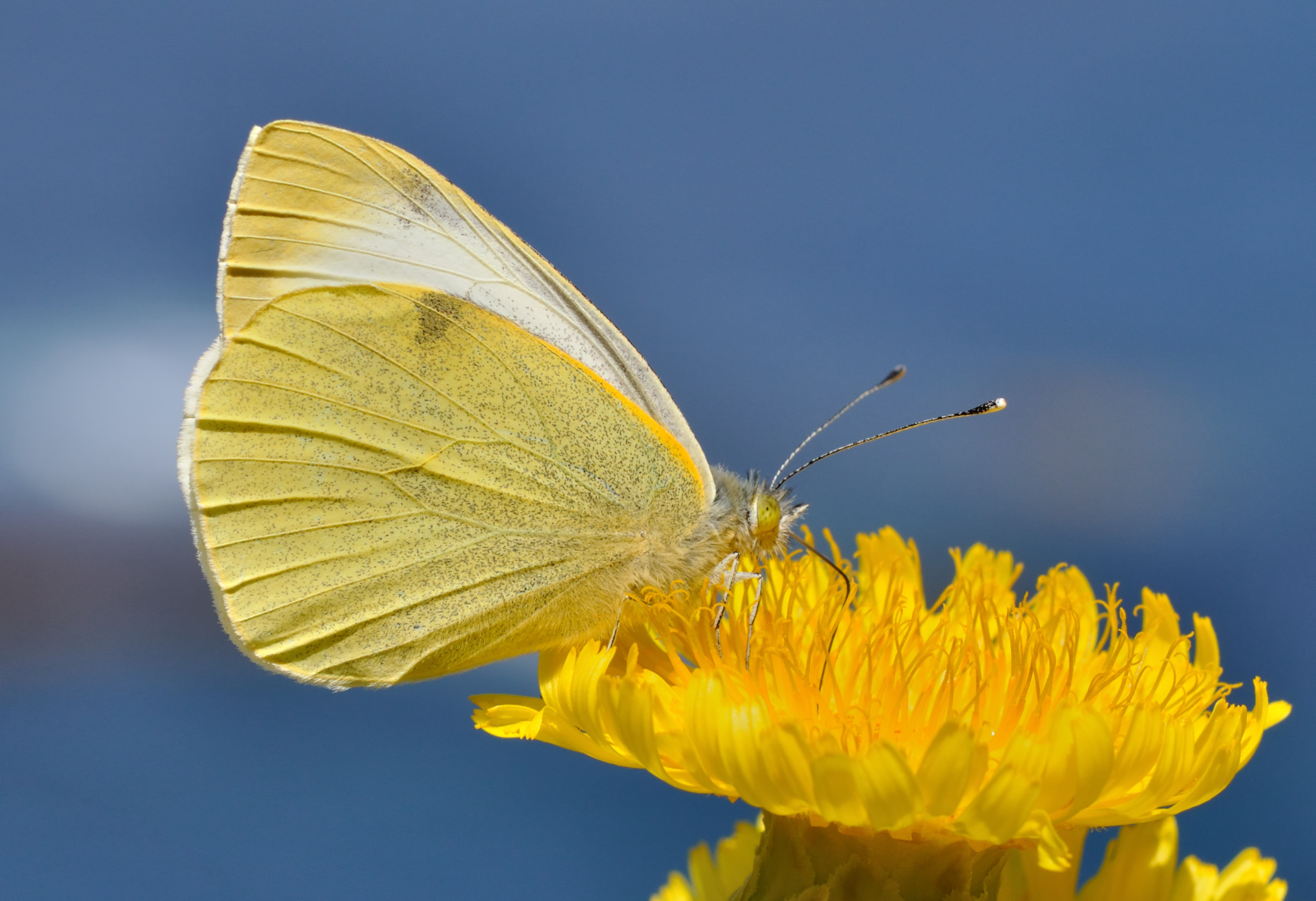 Canary Islands Large White (Pieris cheiranthi) in Puerto de la Cruz, Tenerife, Spain.